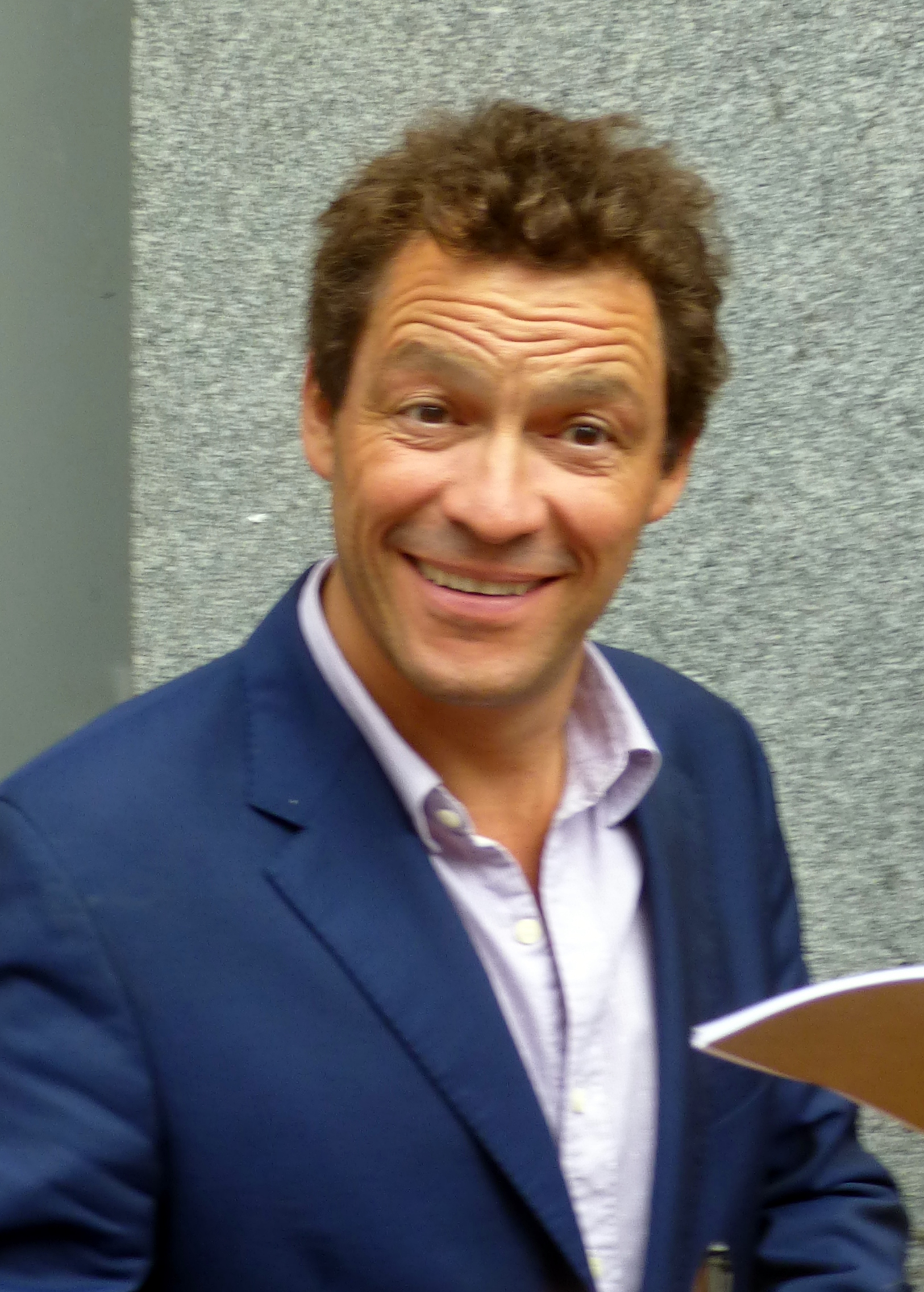 Dominic West at the premiere of Pride, 2014 Toronto Film Festival